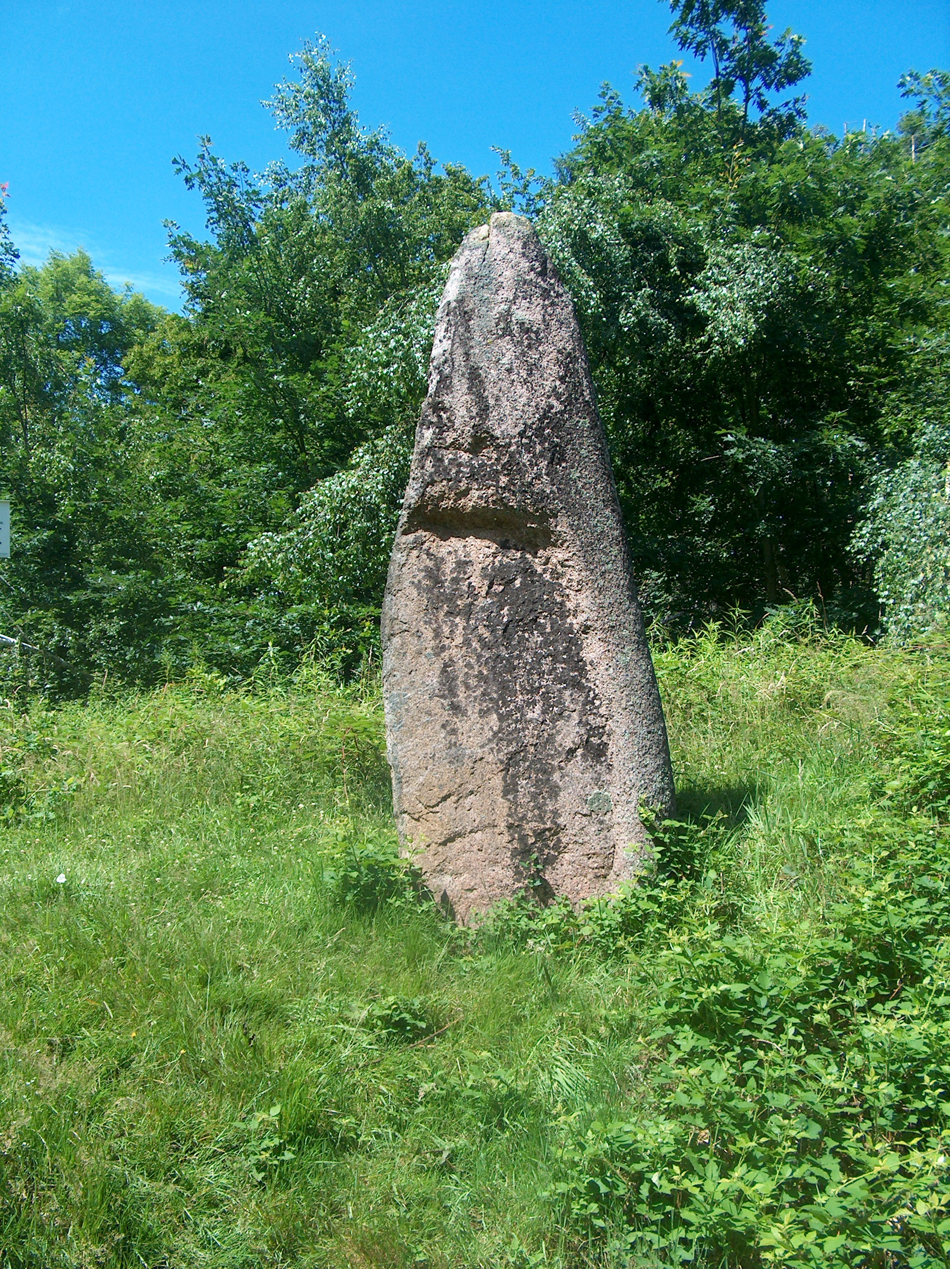 Menhir of Raon L'Etape